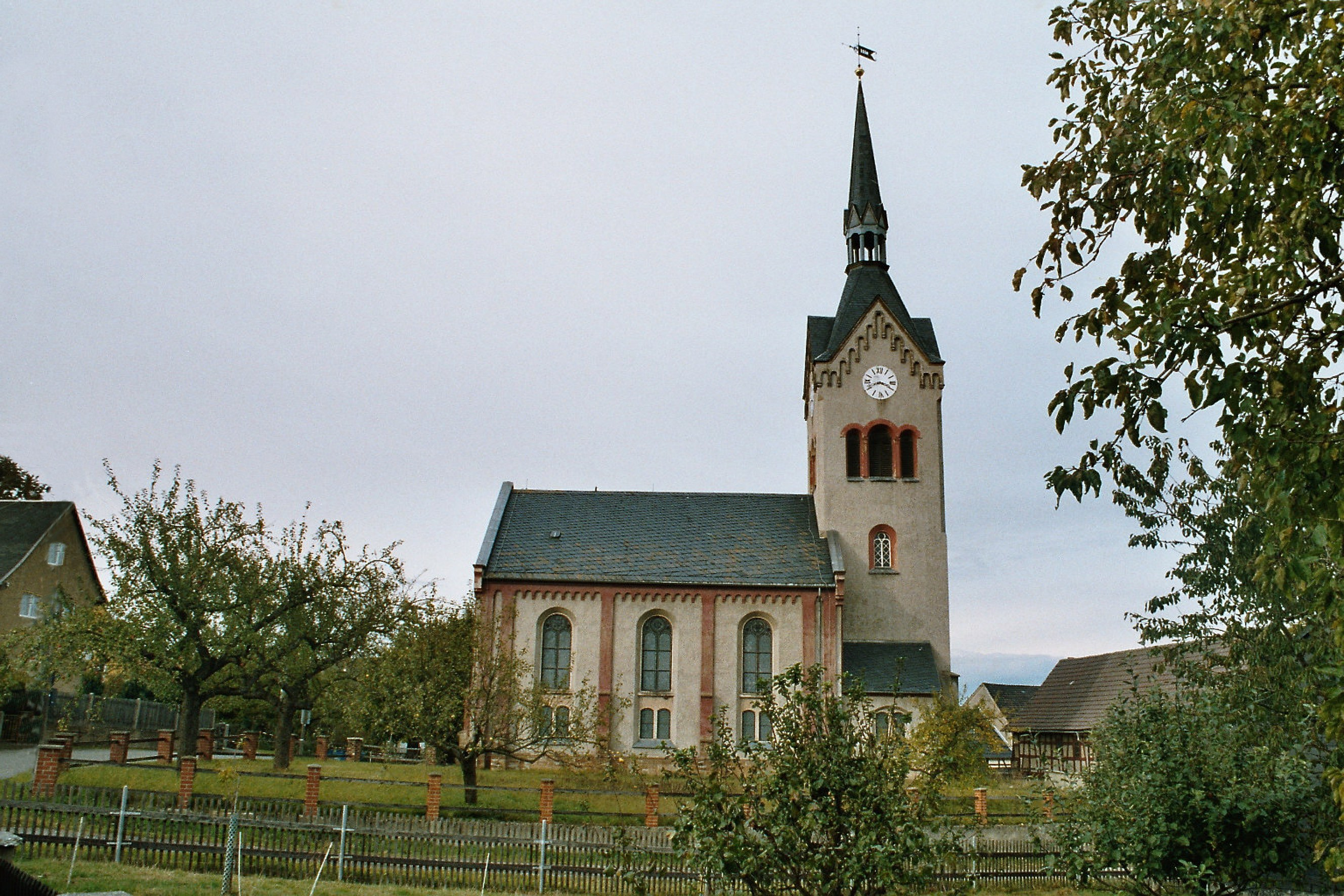 the village church of Nischwitz